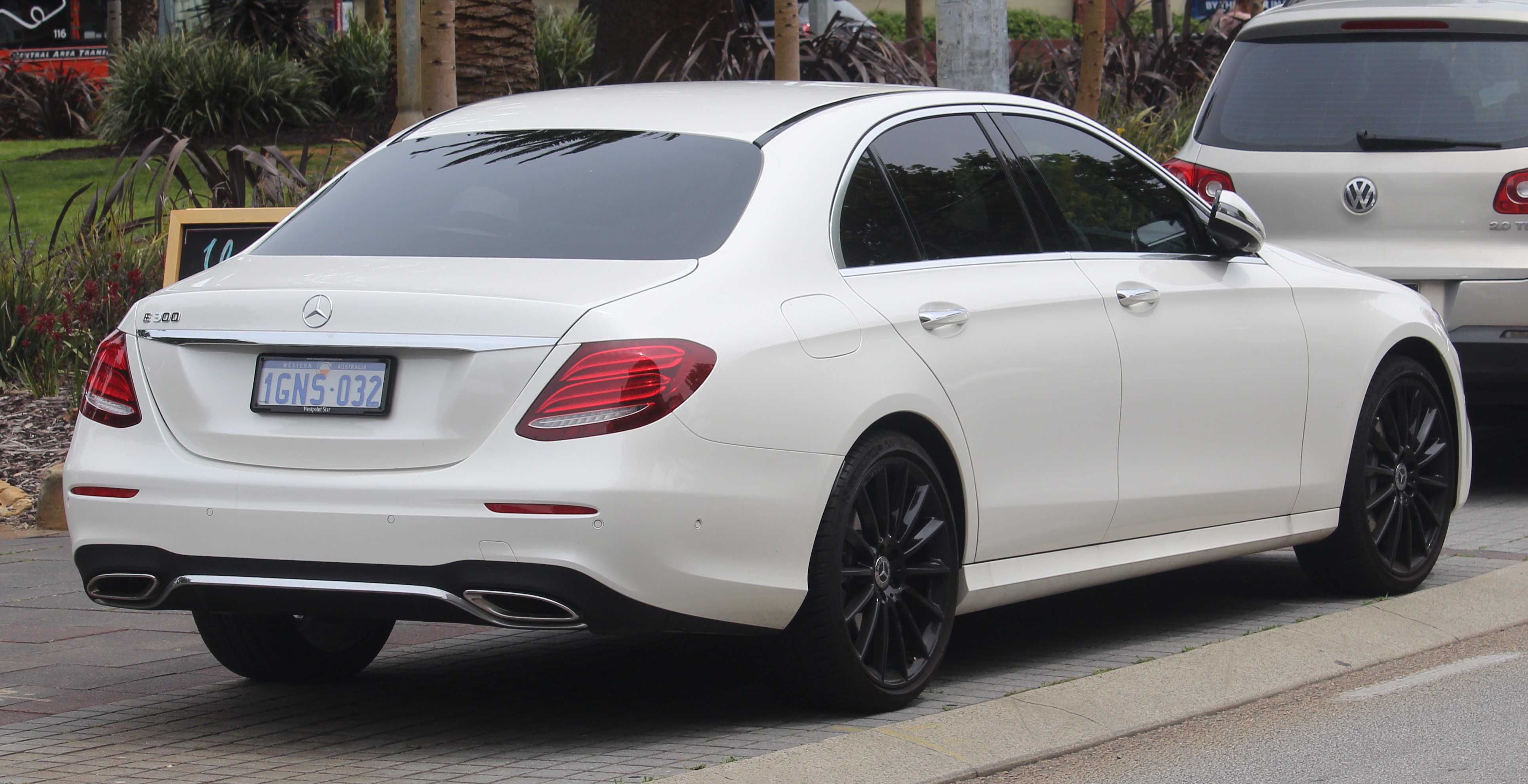 2018 Mercedes-Benz E 300 (W 213) sedan. Photographed in Fremantle, Western Australia, Australia.